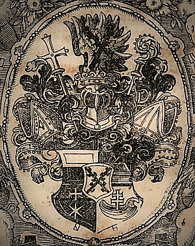 Coat of arms of Prague Archbishop Zbyněk Berka z Dubé.